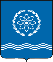 Obninsk (Kaluga oblast), proposal coat of arms (2003, N2)